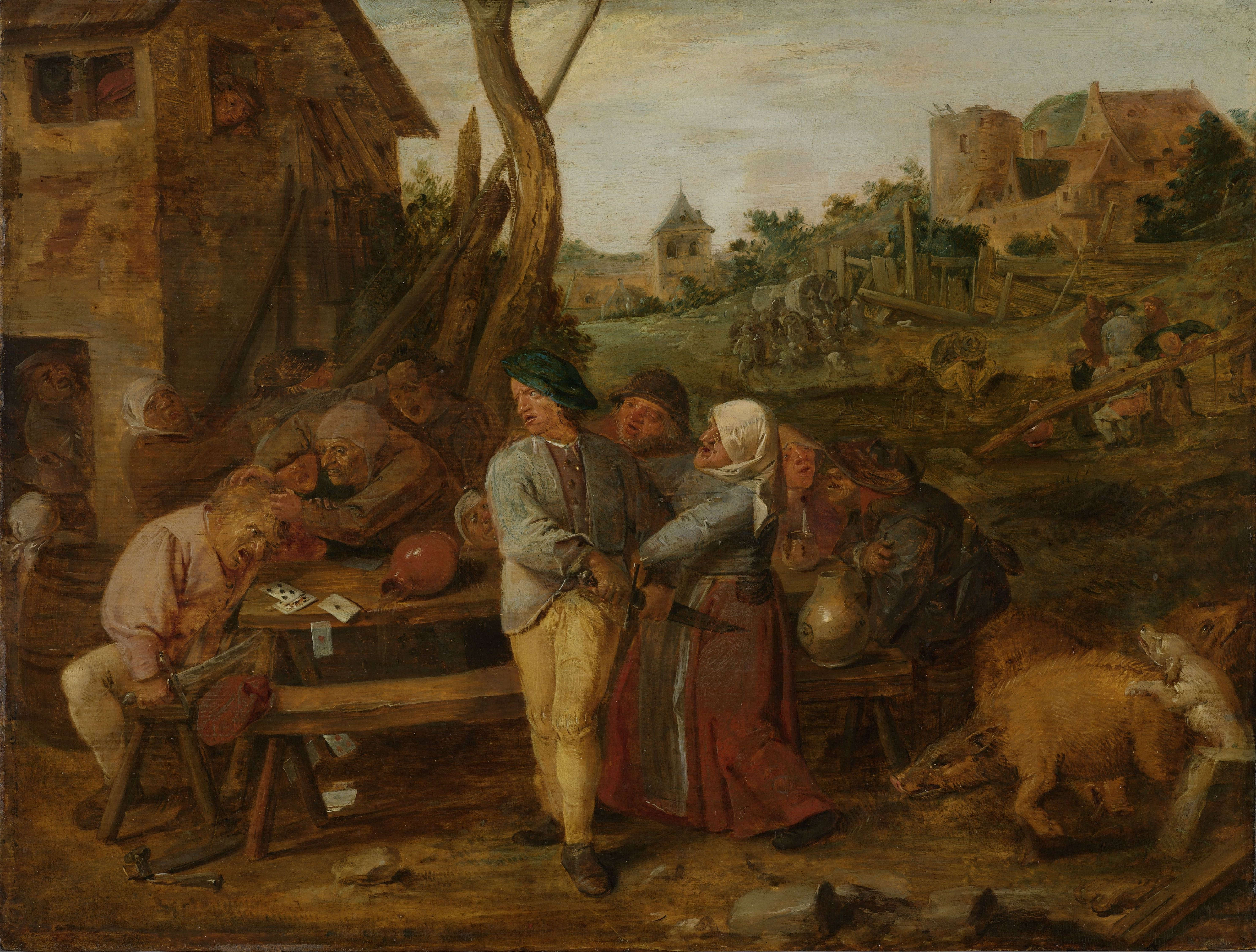 A fight between drunken peasants playing cards around a table outside an inn. Two peasants are drawing their swords. Women are trying to stop them. To the right a pig in the mud.